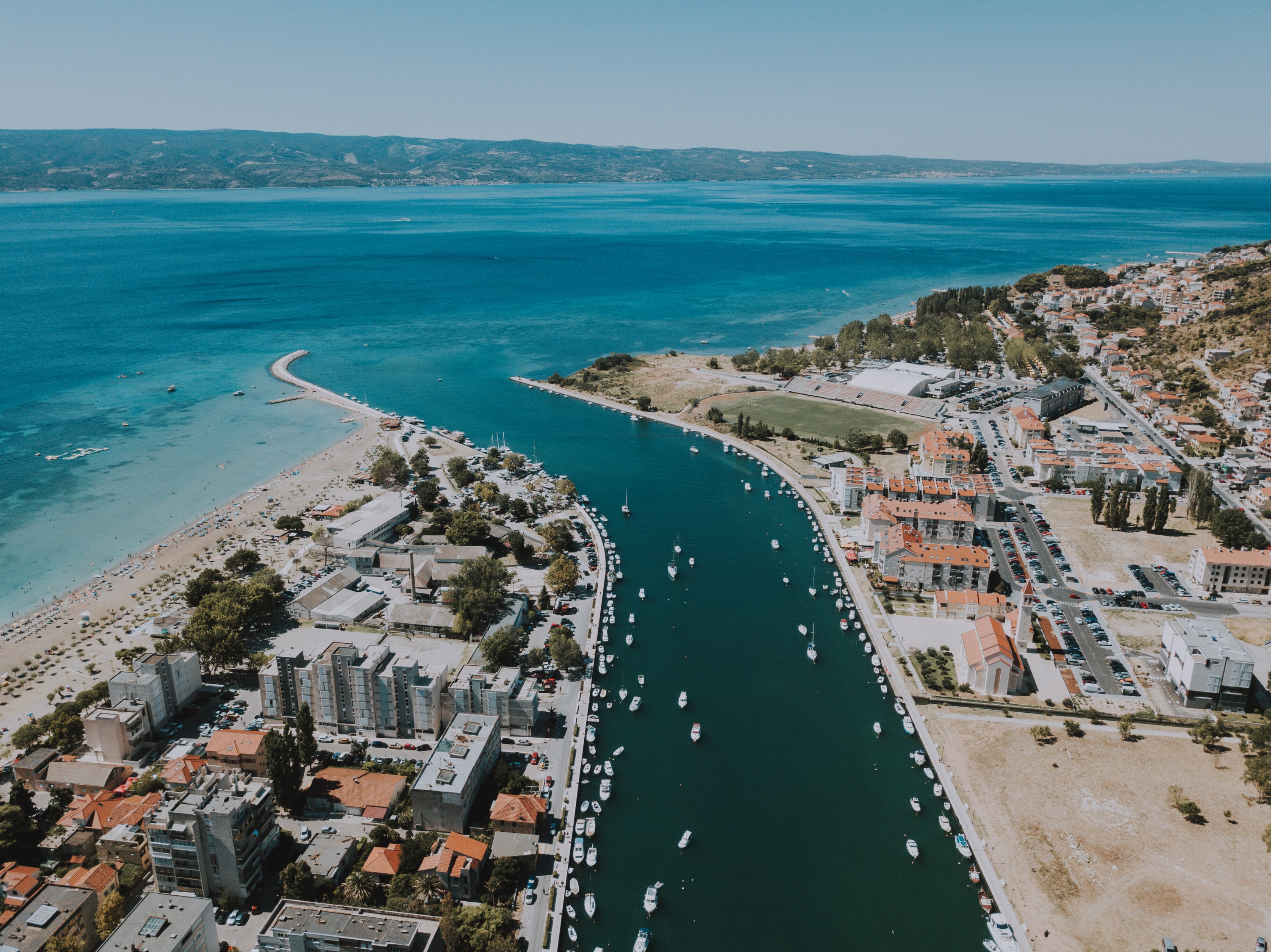 Cetina river at Omis and the Adriatic